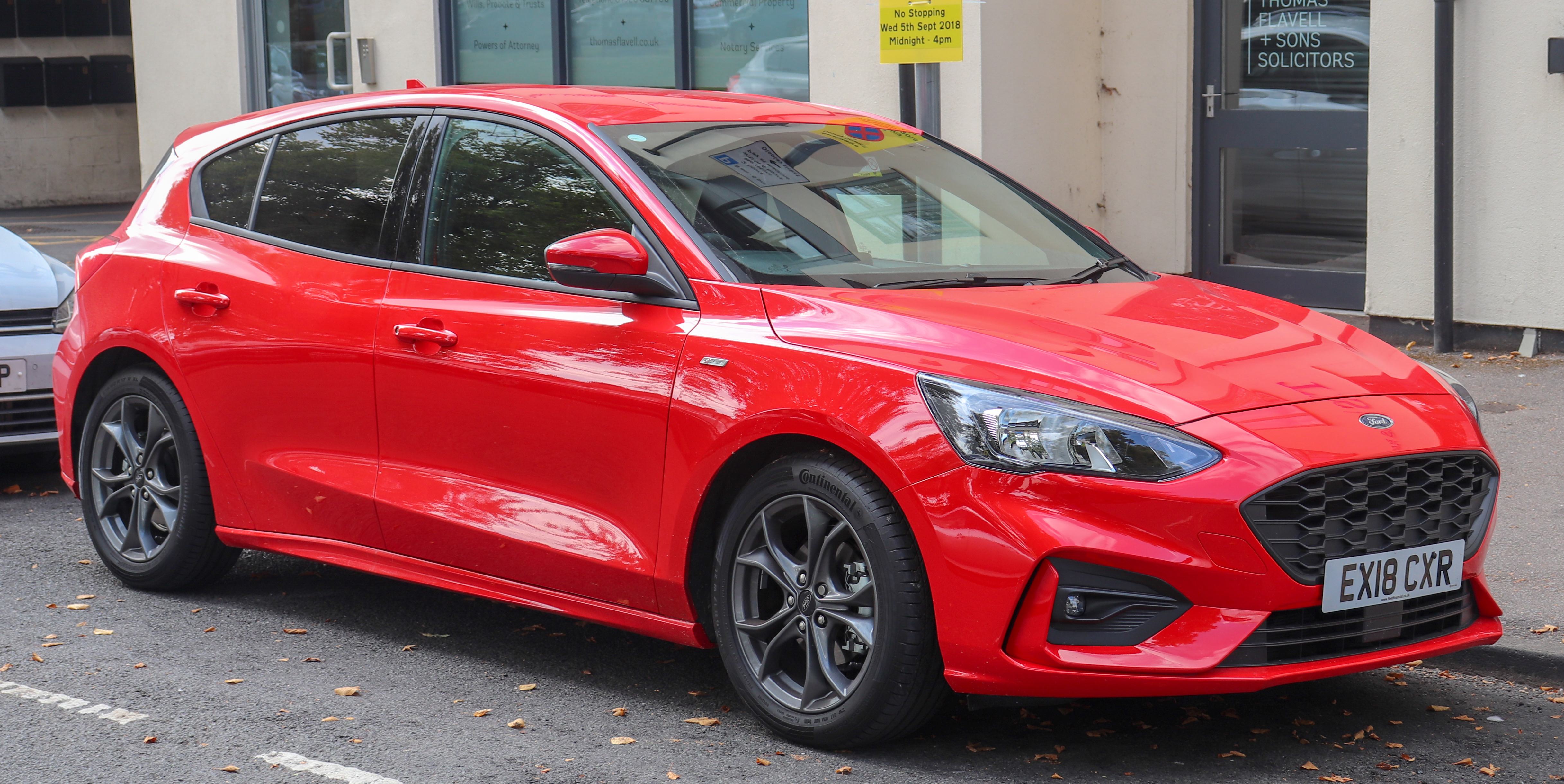 2018 Ford Focus ST-Line TDCi 1.5 Front Taken in Leamington Spa